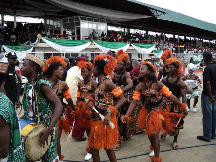 Pictures from the closing ceremony of National Festival of Arts and Culture (NAFEST) 2010 in Uyo, Akwa Ibom state Nigeria. This is an image of Cultural Fashion or Adornment from Nigeria